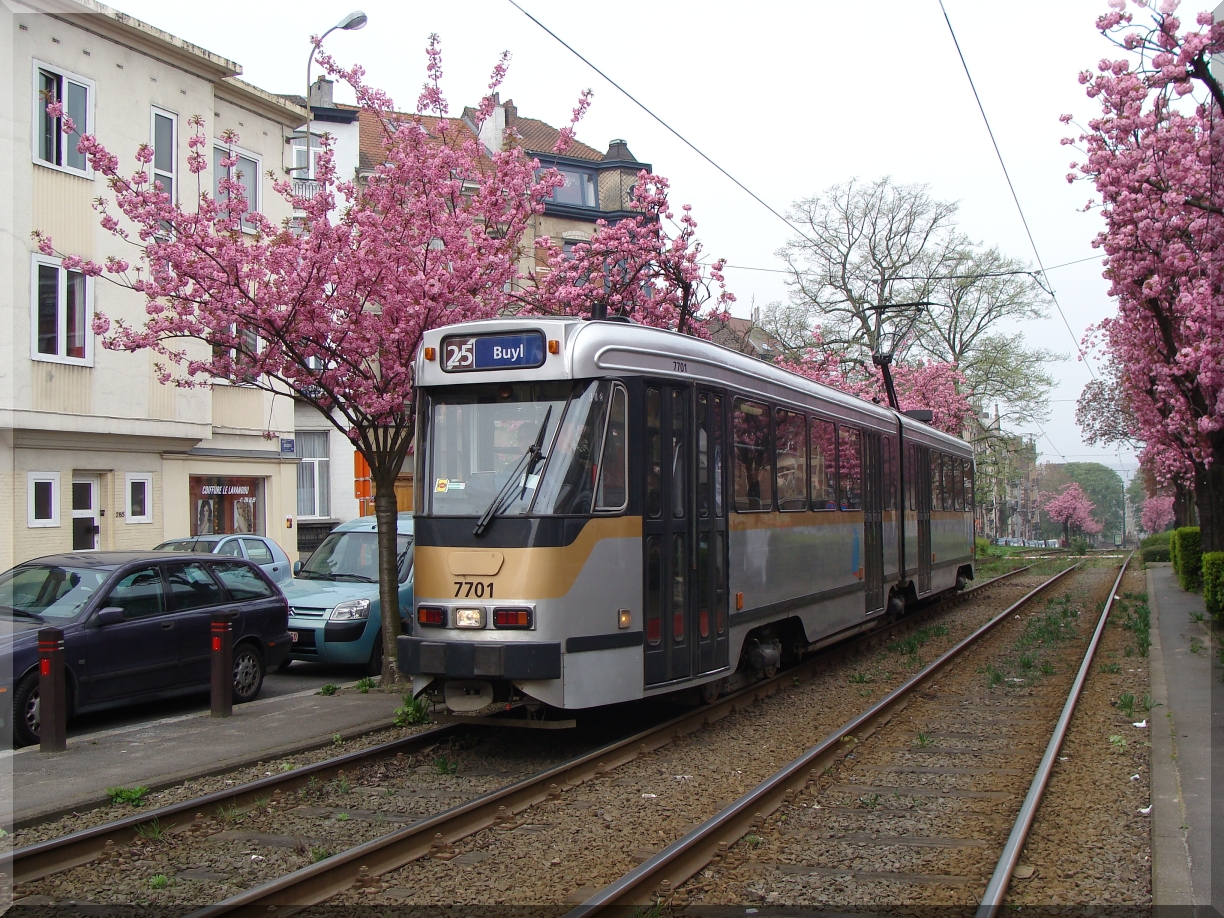 Double articulated Brussels city tram,line 25,tram stop Meiser